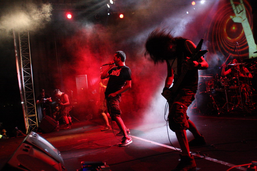 Image of Down For Life, an Indonesian metal band.